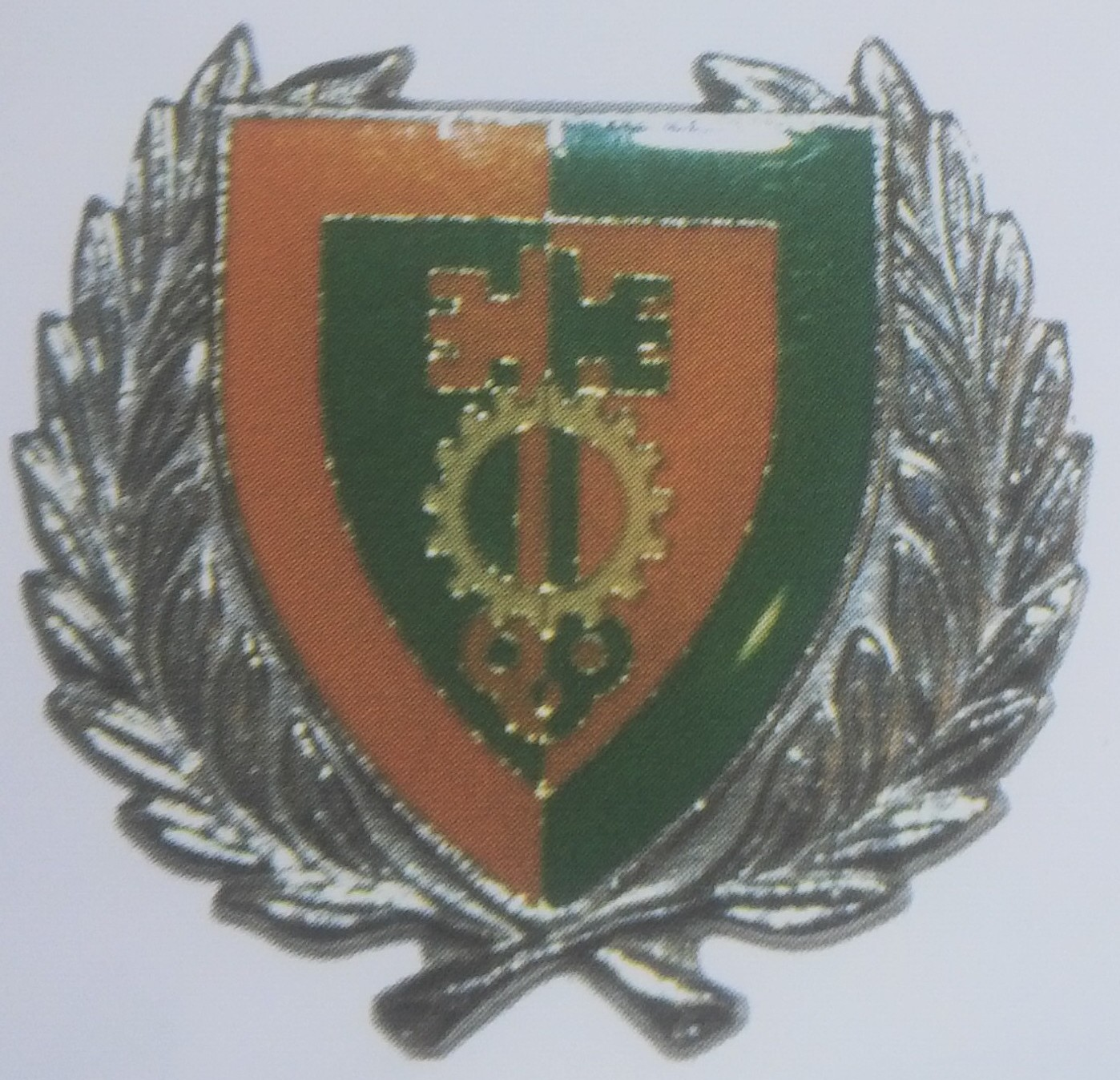 SADF 7th division mobilisation centre